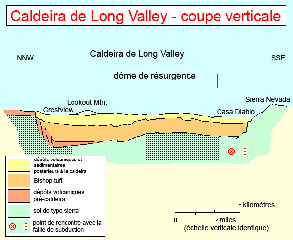 Vertical NW-SE section through Long Valley Caldera. Caldera structure based on seismic-refraction results of Hill and others. -- Schematic modified from: Newhall and Dzurisin, 1988, Historical Unrest at Large Calderas of the World: USGS Bulletin 1855, taken from: Rundle and Hill (1988), after Hill and others (1985a) and Rundle and other (1986). French translation by Alchemica